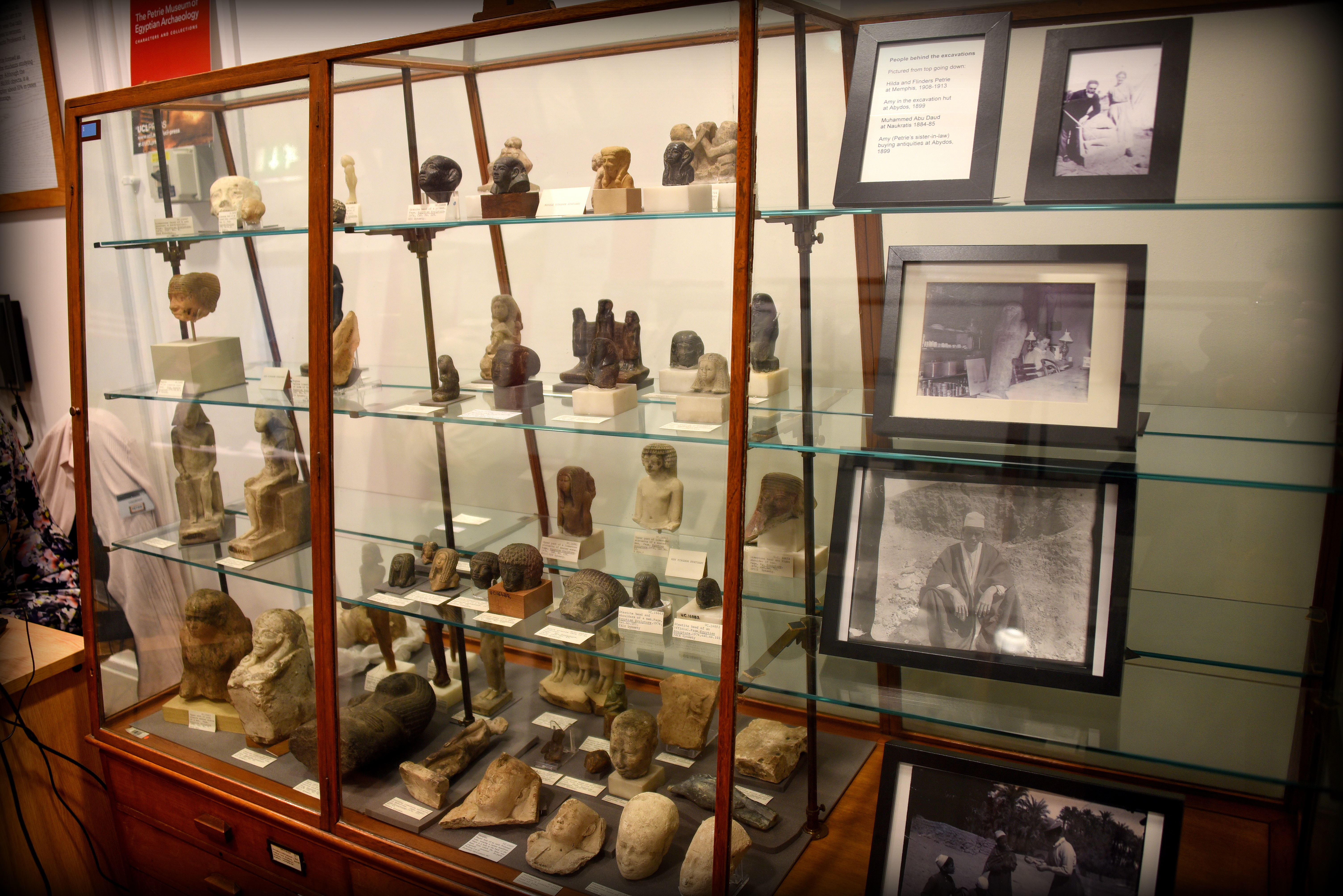 You will see this displaying case when you immediately enter into the Museum; it is next to the information desk. There are many figurines and statuettes (with thanks to The Petrie Museum of Egyptian Archaeology, UCL).